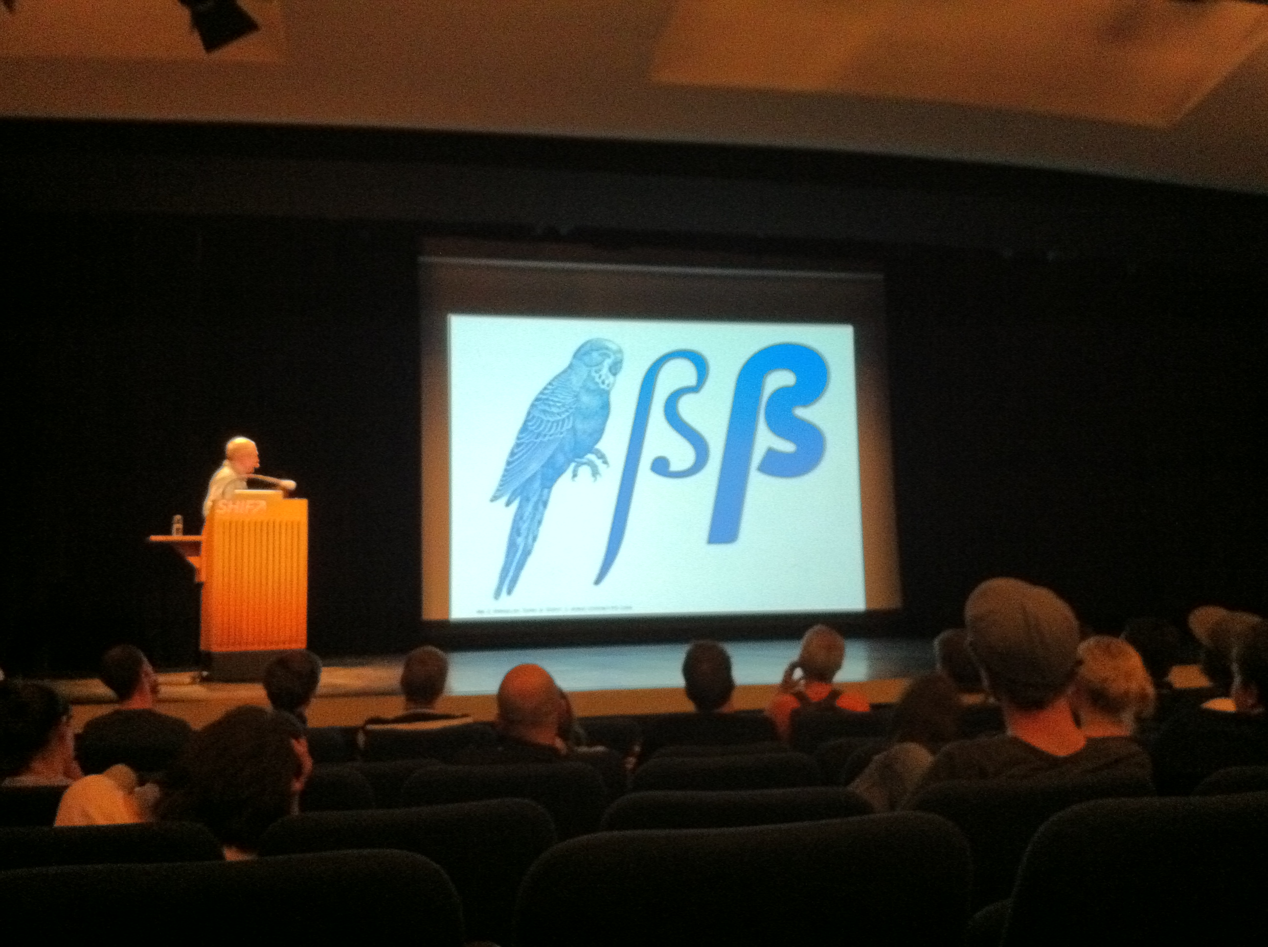 František Štorm at the TYPO Berlin conference in May 2011